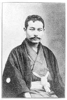 関根金次郎 Kinjirō Sekine, the 13th Lifetime Shogi Meijin, pictured before he became Meijin when he was 8-dan